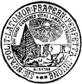 Emblema Loggia Perfetta Unione